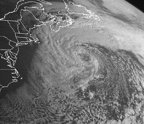 Halloween Storm at Peak Intensity Visible Image: 12 UTC October 30 1991